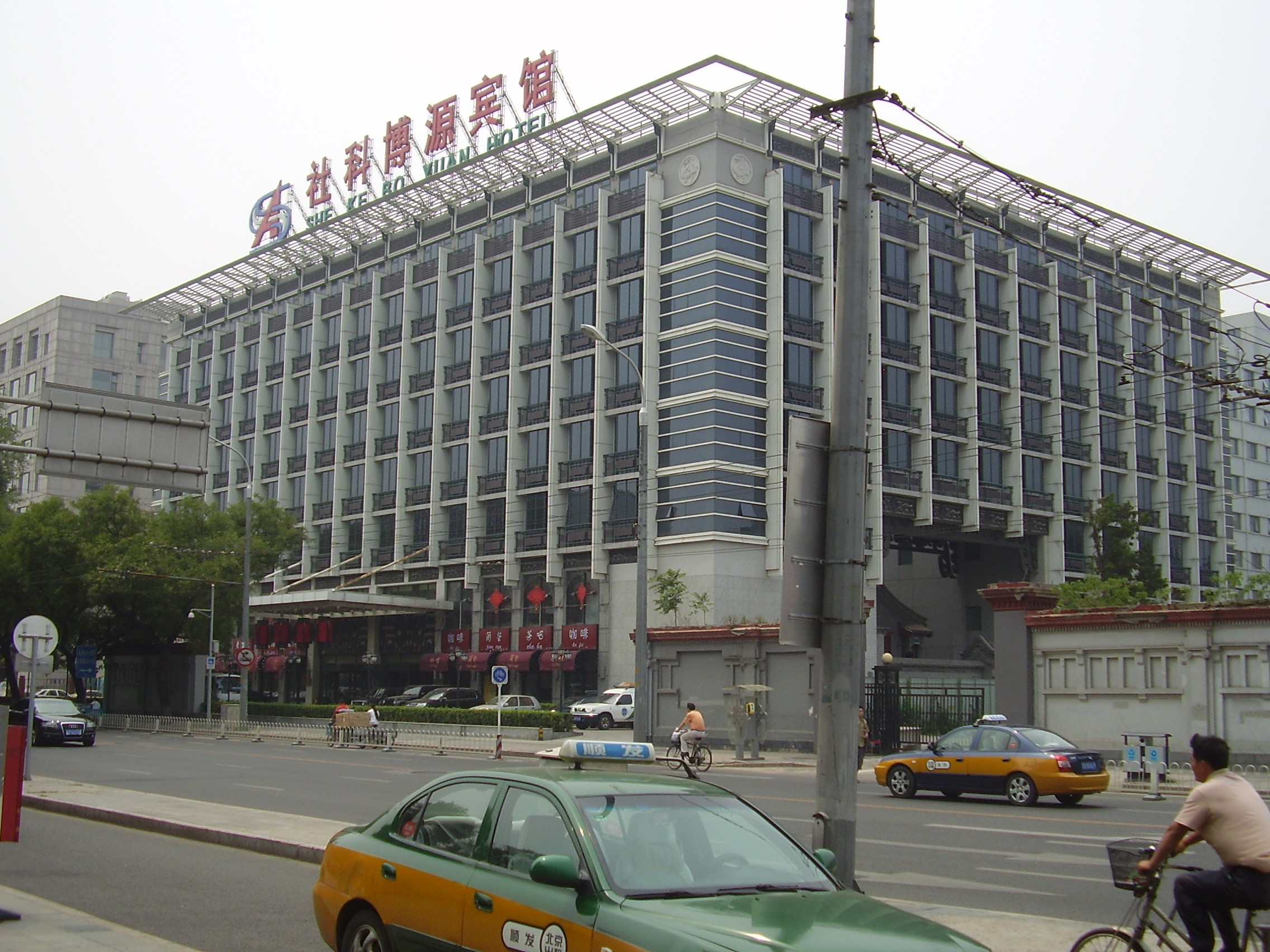 She Ke Bo Yuan Hotel (S: 社科博源宾馆, T: 社科博源賓館, P: Shèkē Bó Yuán Bīnguǎn) - 27 Wangfujing Dajie Dongcheng District 100006 Beijing